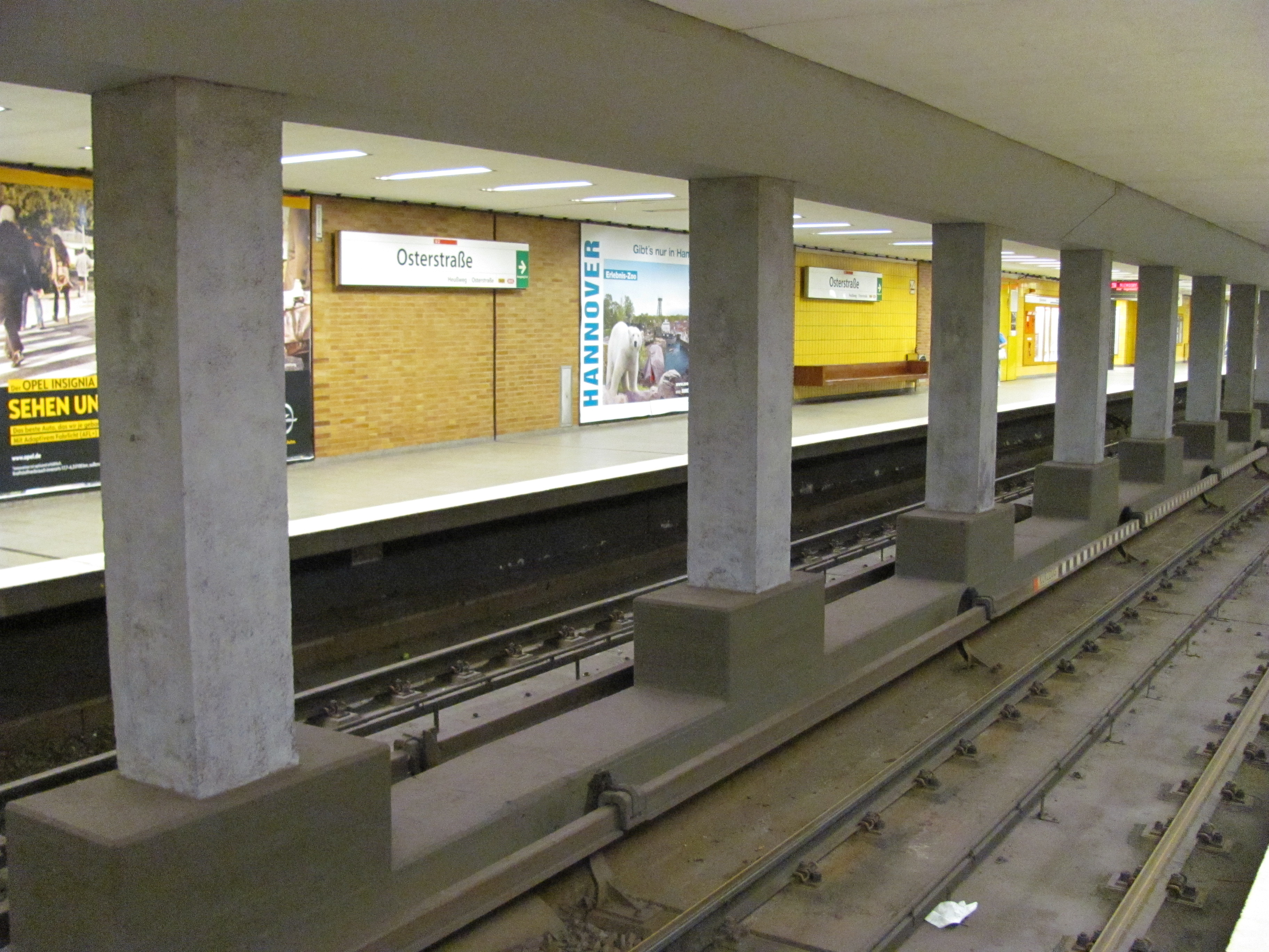 U-Bahn station Osterstraße in Hamburg, Germany